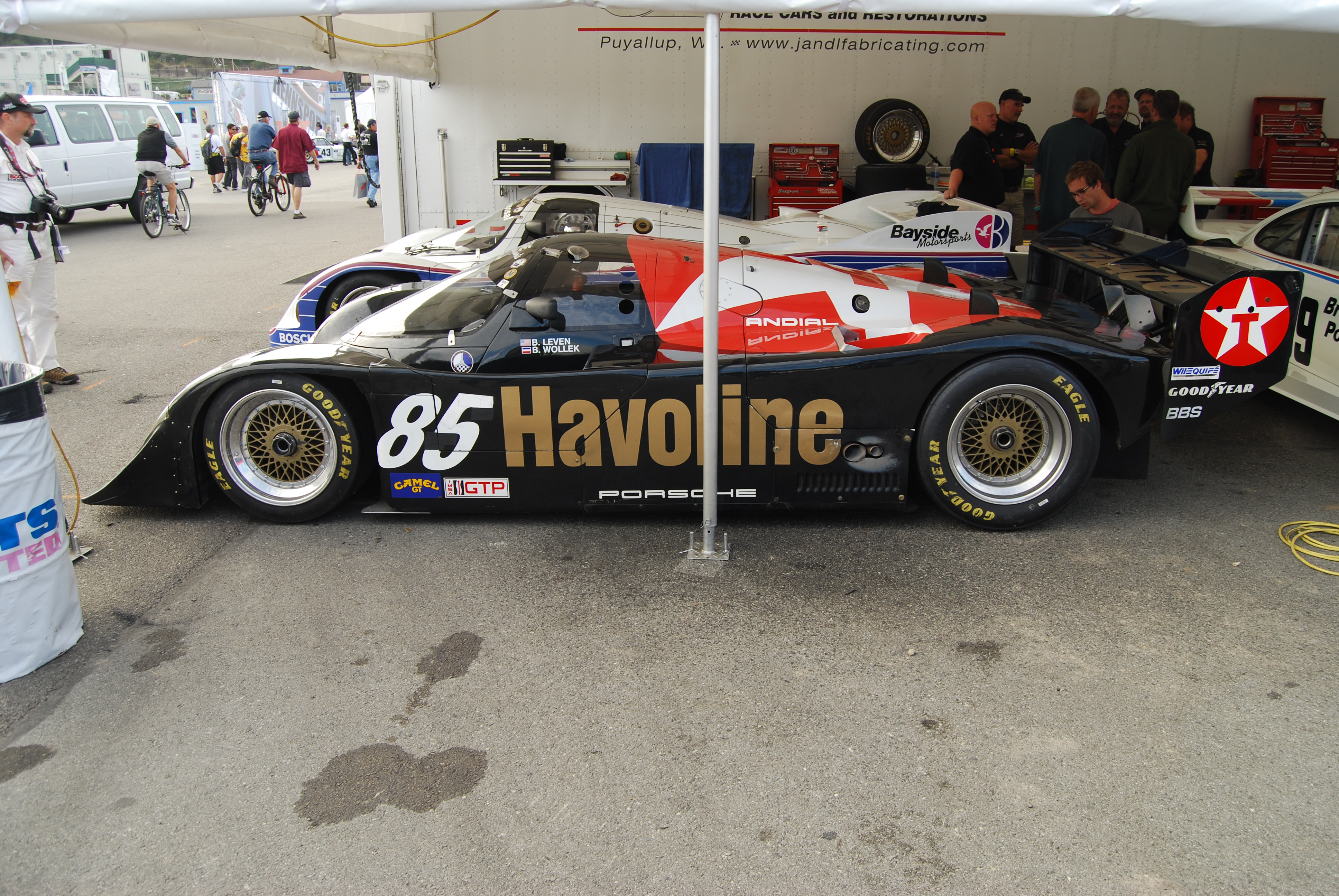 6a3_DSC_0397